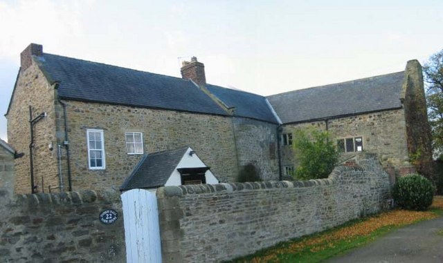 Tudhoe Old Hall The hall is believed to date back to the 17th Century andat one time was converted into 3 houses now in two.